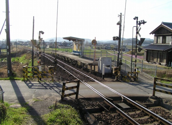 Miki Railway Sousa Station.(Japan Hyogo of Kakogawa City).